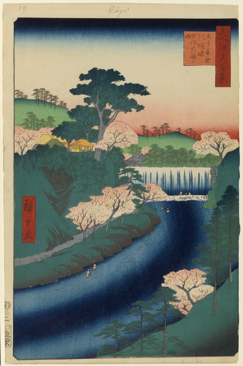 Part of the series One Hundred Famous Views of Edo, no. 019, part 1: Spring.